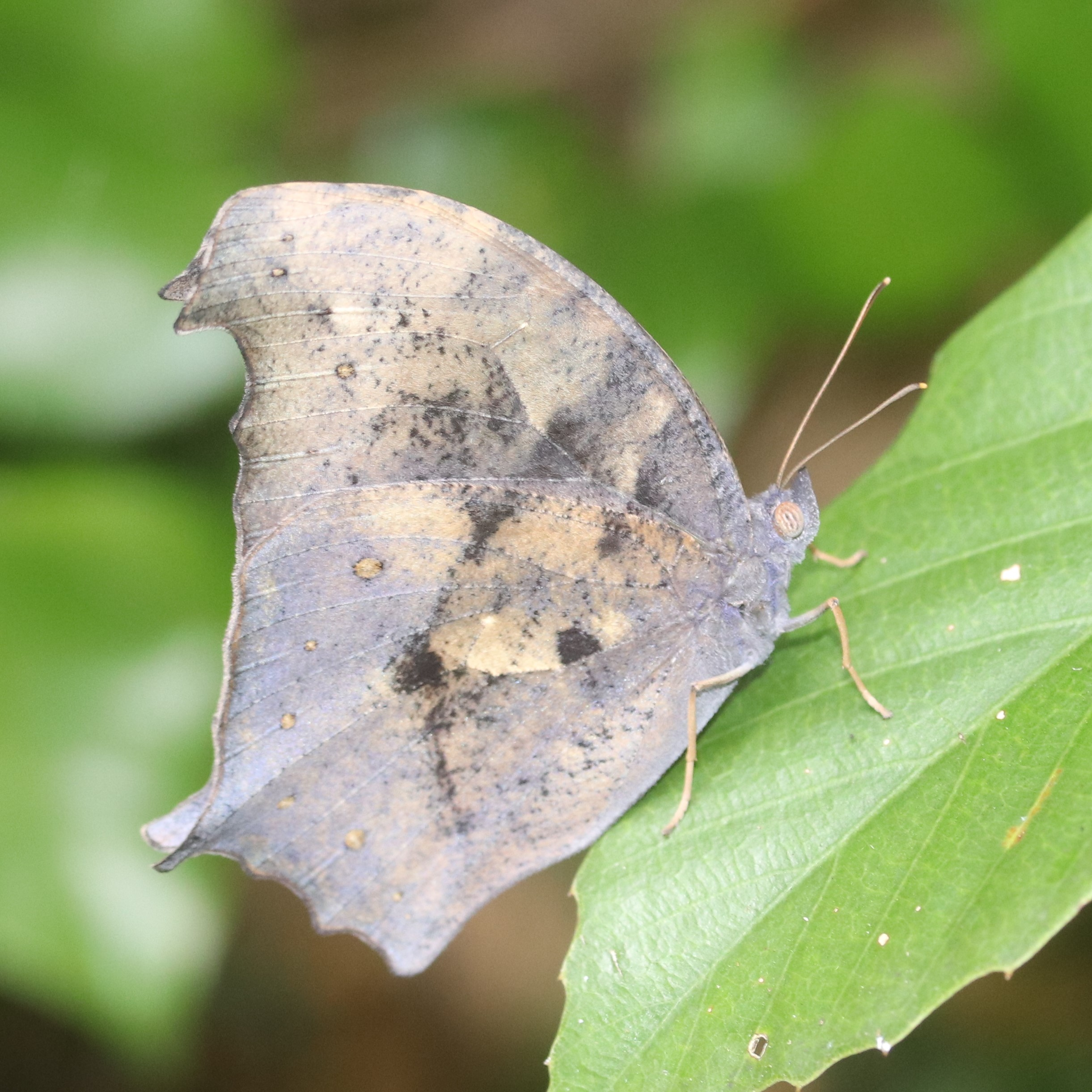 Melanitis phedima, male, in Mount Tonmaku, Yumihari Mountains, Shinshiro, Aichi Prefecture, Japan.